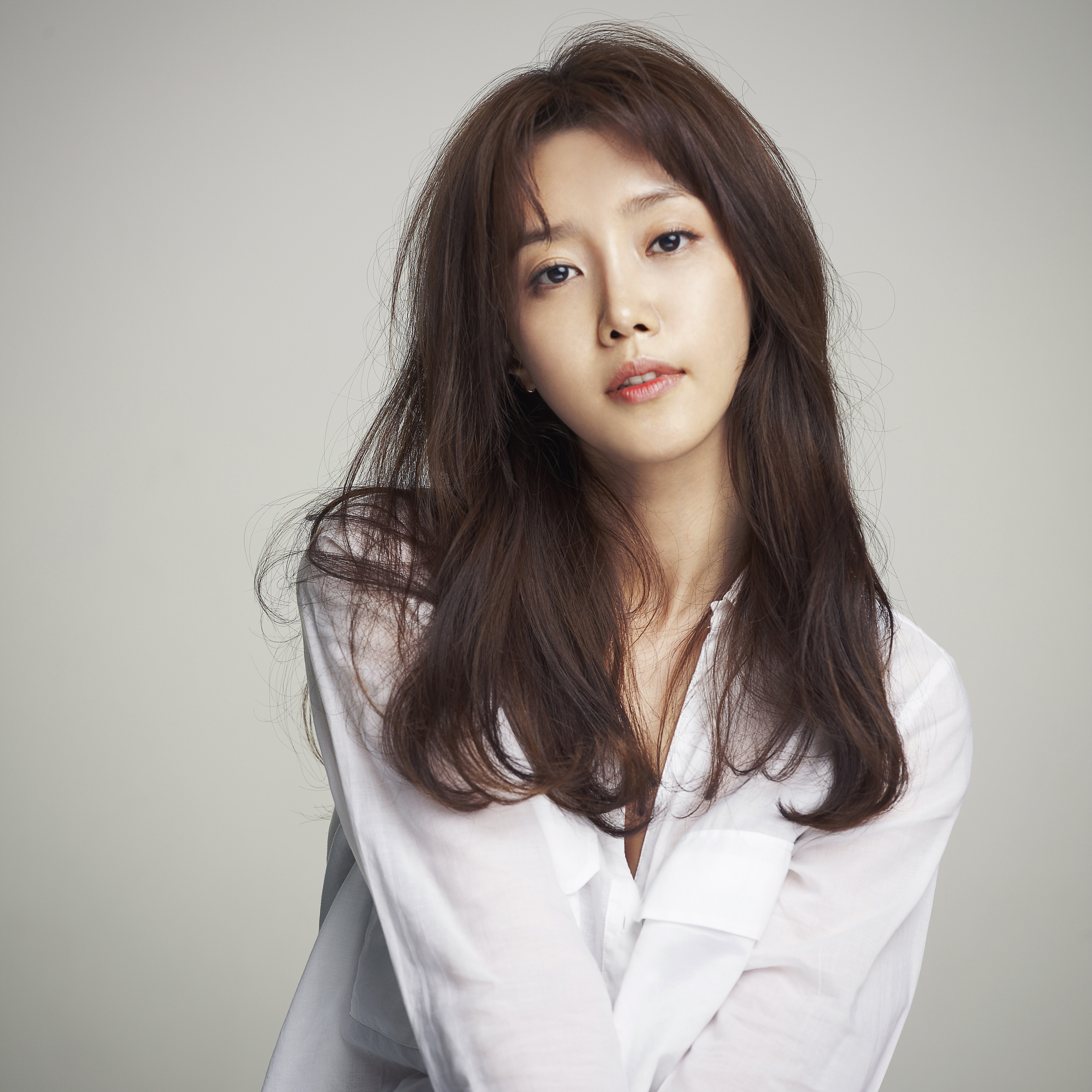 South Korean actress Chae Jung An's profile image taken by her agency BETTER ENT in 2014.